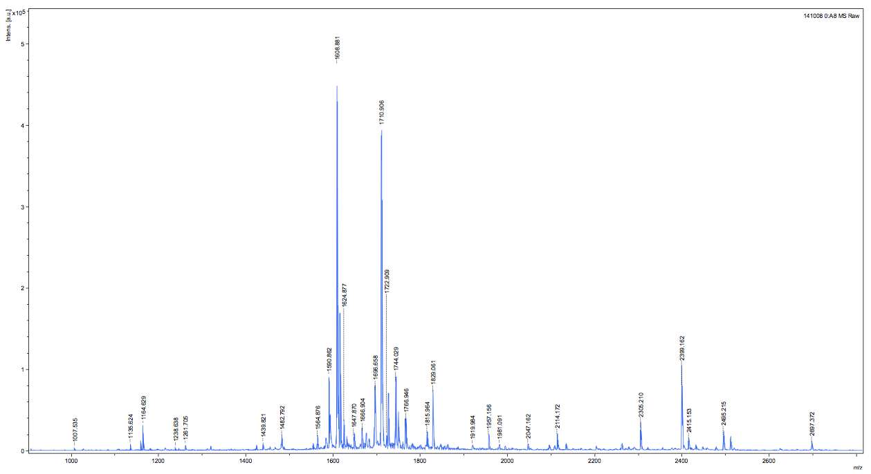 Result of digestion of a triptych SDS-PAGE gel analyzed by MALDI-TOF mass spectrometry.